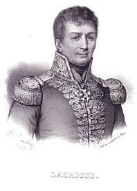 An engraving of Jean-Baptiste Raymond de Lacrosse made in 1835. Found at [1]